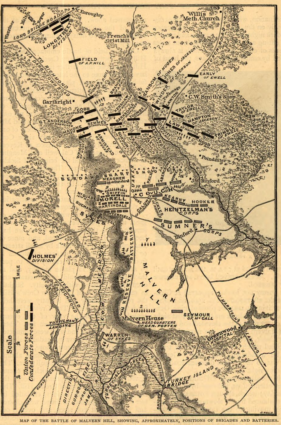 From Century illustrated monthly magazine, v. 30, Aug. 1885. p. 617. Gives names of commanders, roads, drainage, vegetation, relief by hachures, houses, and names of residents. Brief description of the battle appears below the map. Library of Congress Geography and Map Division Washington, D.C. 20540-4650